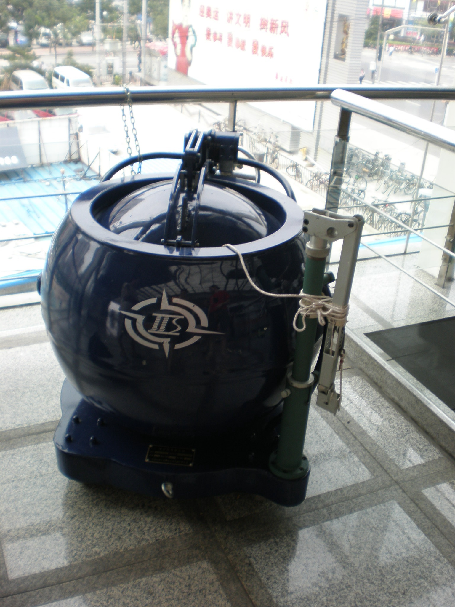 Bomb containment chamber. Police surrounded me after this photo. These appeared at all subway stations in Beijing leading up to the Olympics. 5 inches thick of cast iron.